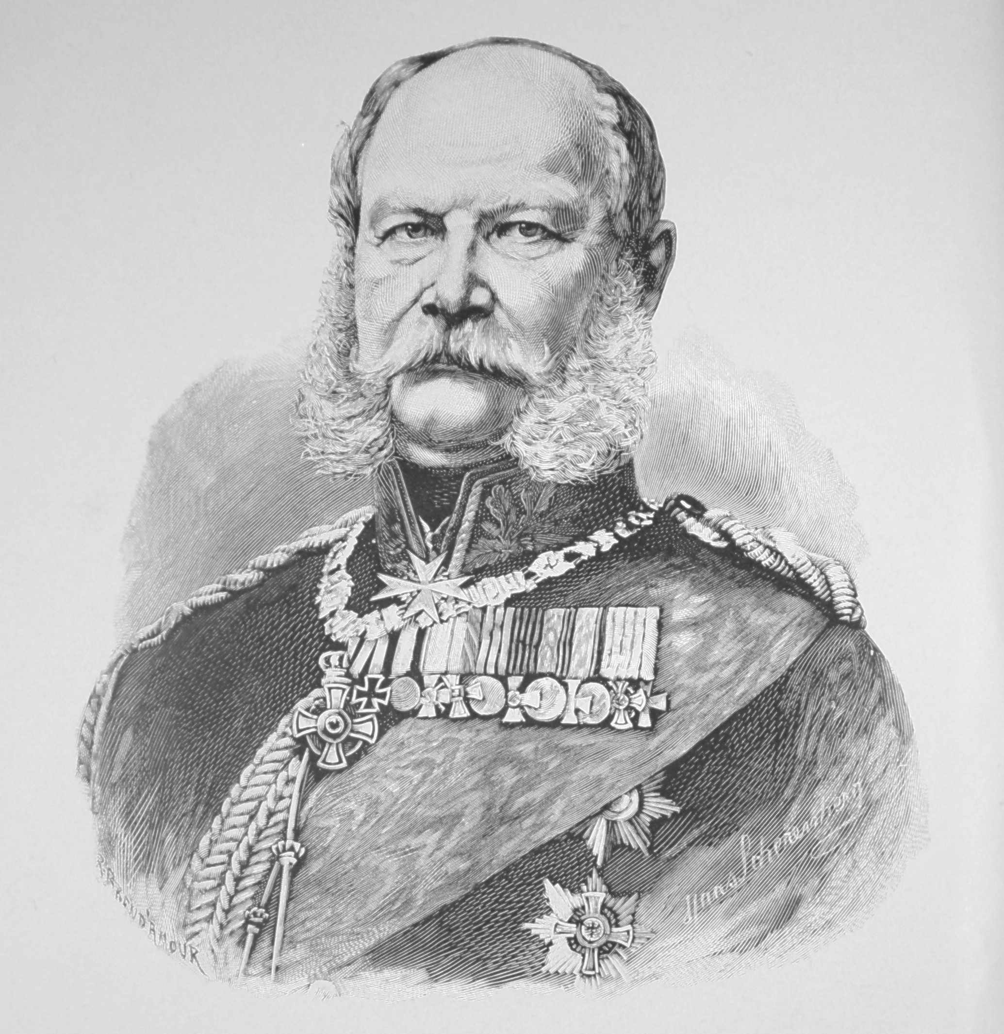 emperor Wilhelm I.